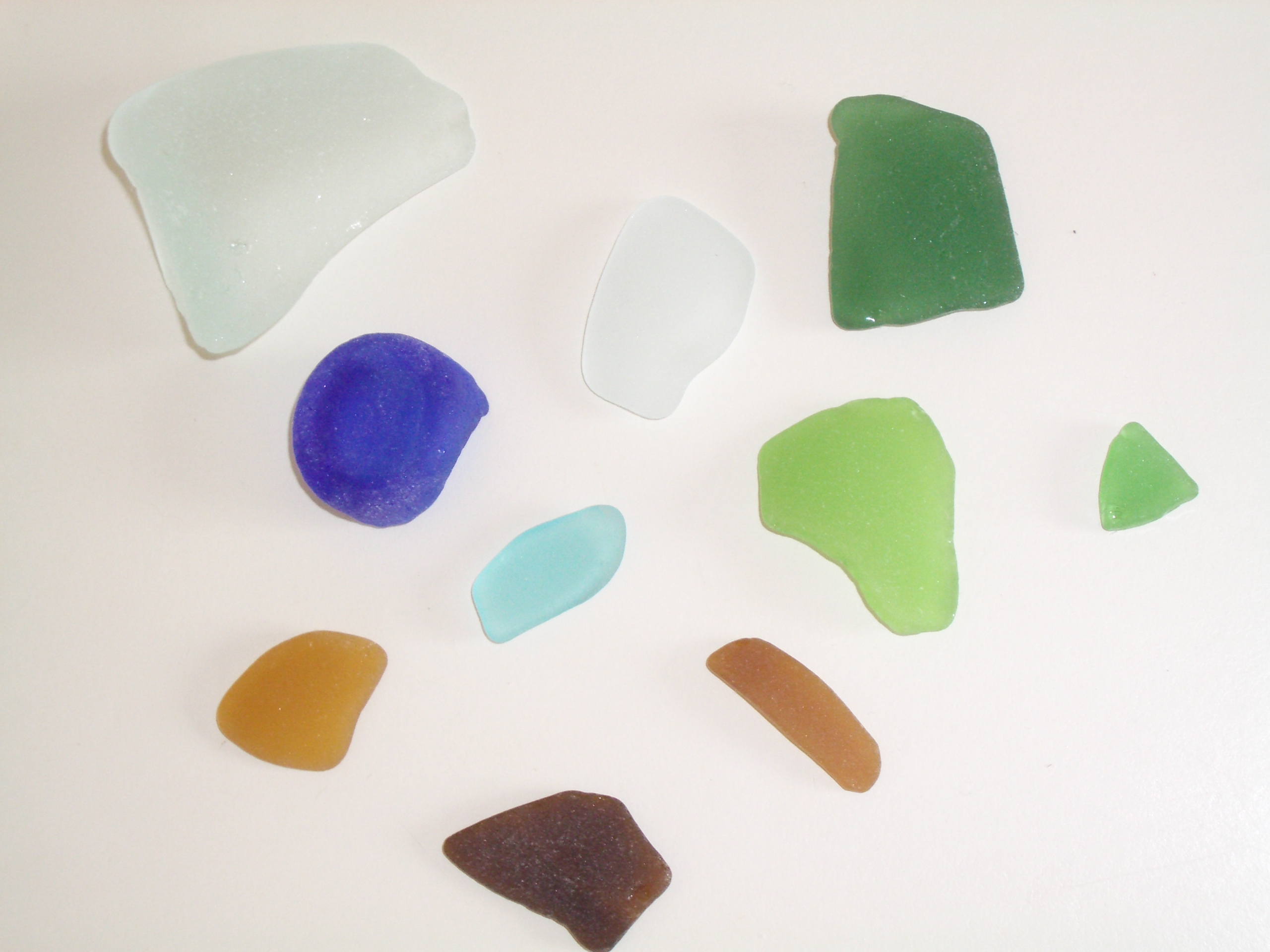 Sea Glass from Long Beach Island, NJ Photo by Epstein.Mark